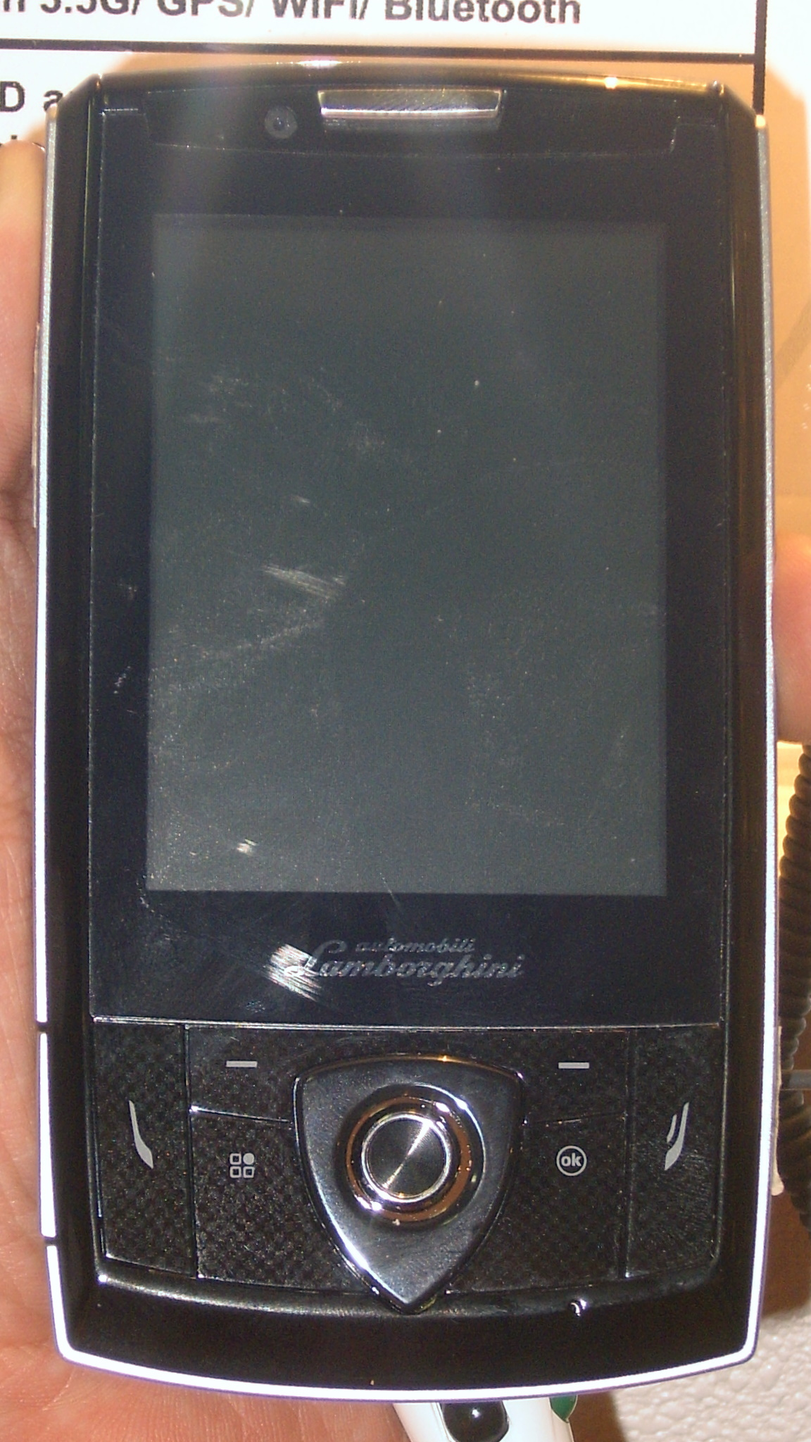 2008 Computex: ASUS Lamborghini ZX1.